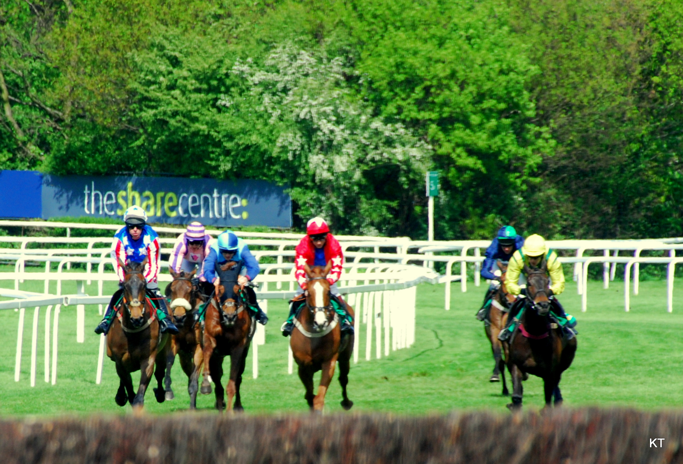 The Celebration Chase, won by this season's Champion Chaser, Sire De Grugy. Sandown Park, April 2014.